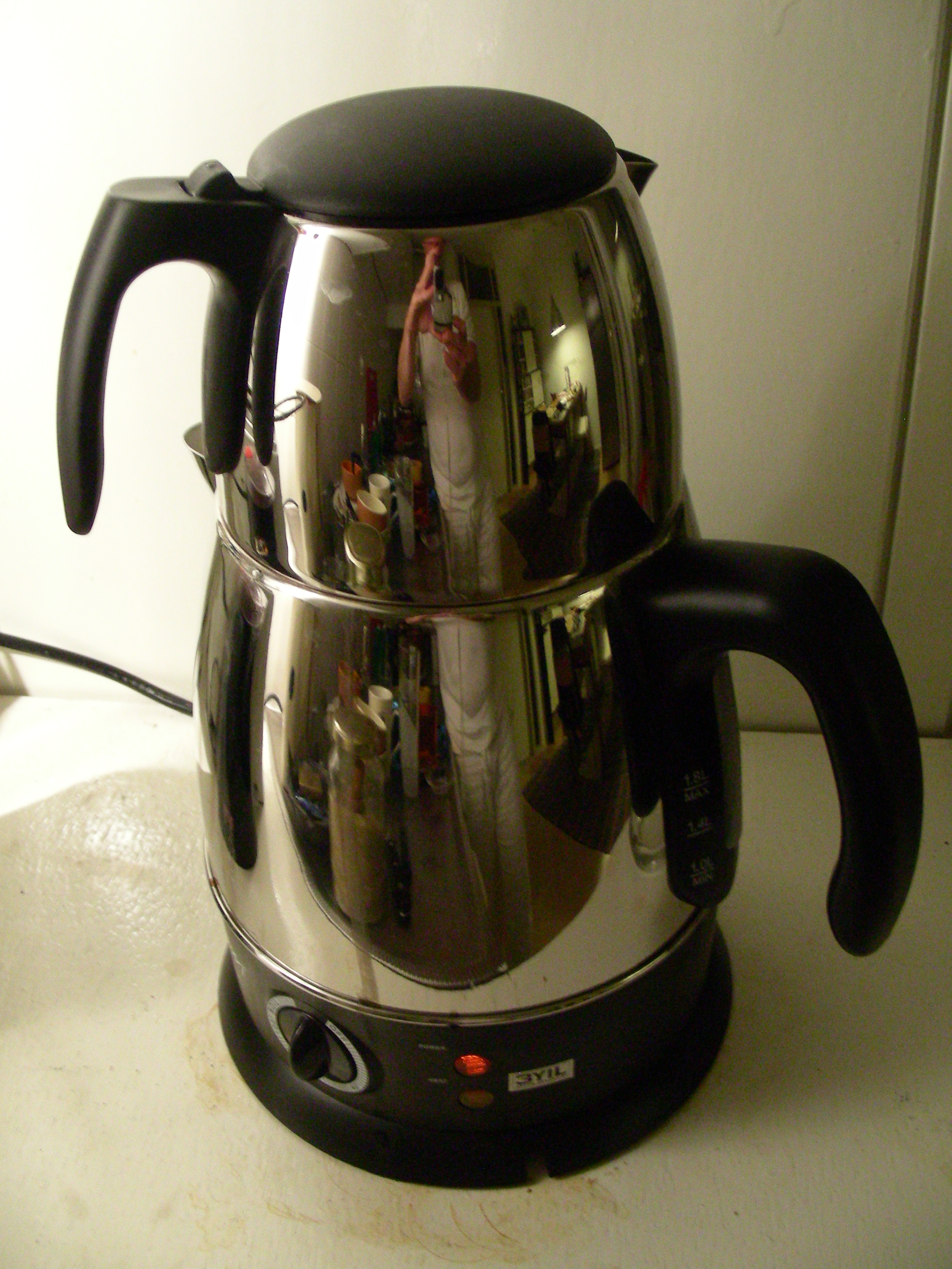 my own modern turkish semaver, in normal position